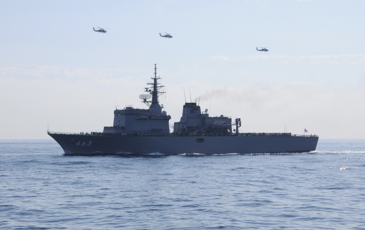 JS Uraga (MST-463) transits Sagami Bay during the SDF Fleet Review 2009 exercise (day 1). Nikon D90 + AF-S DX Nikkor 18-105mm f/3.5-5.6G ED VR